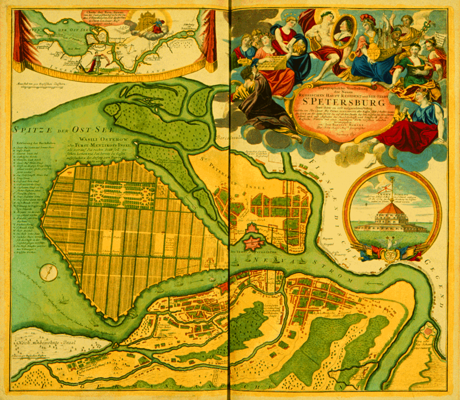 Map of Saint-Petersburg. , Etching with line engraving, painted in watercolour, 50.5x59.5 cm. 1720s (before 1725)